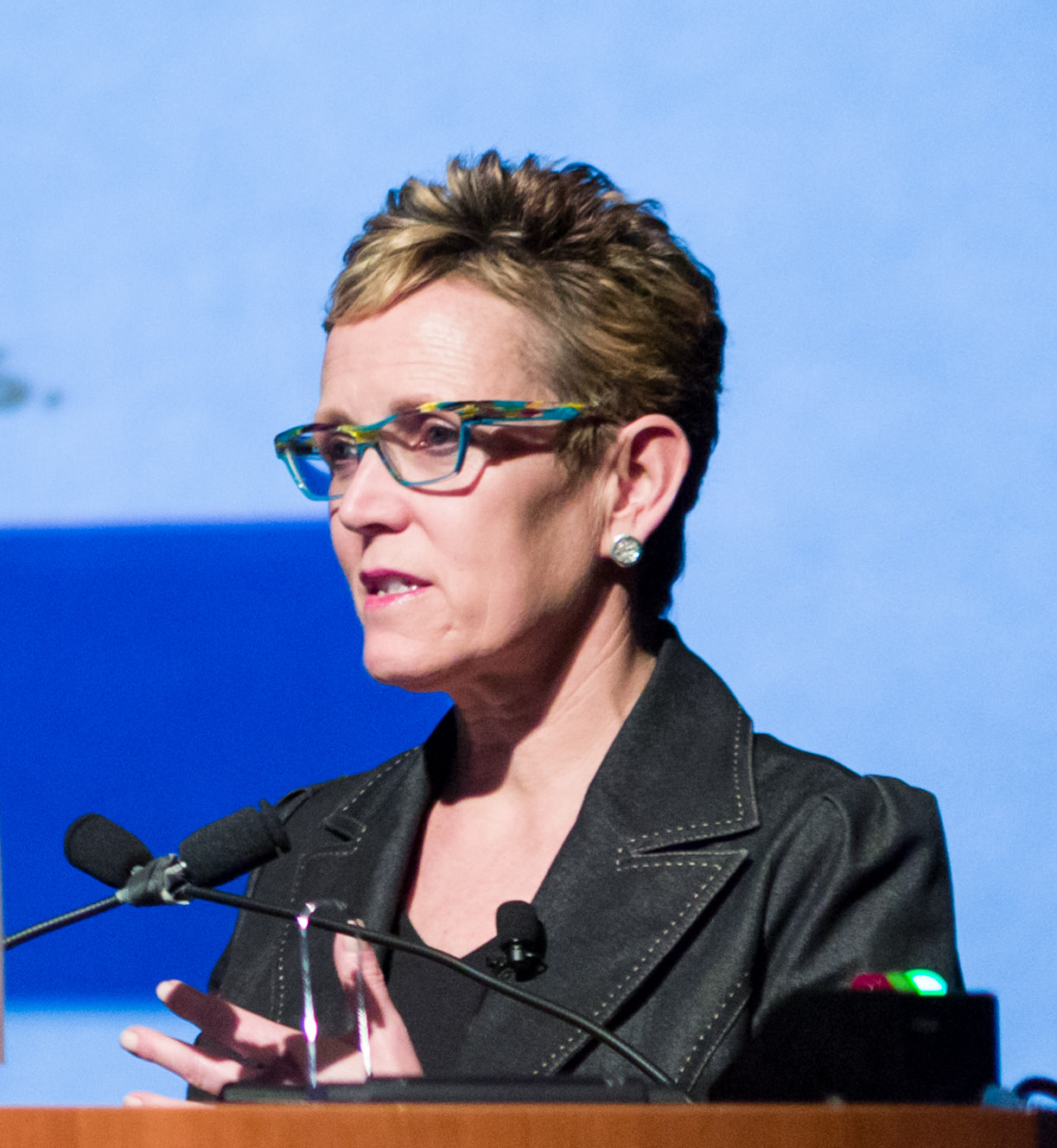 Margaret Anderson, M.S., executive director of FasterCures, speaks at the 2017 Rare Disease Day at NIH. Credit: Daniel Soñé Photography, LLC